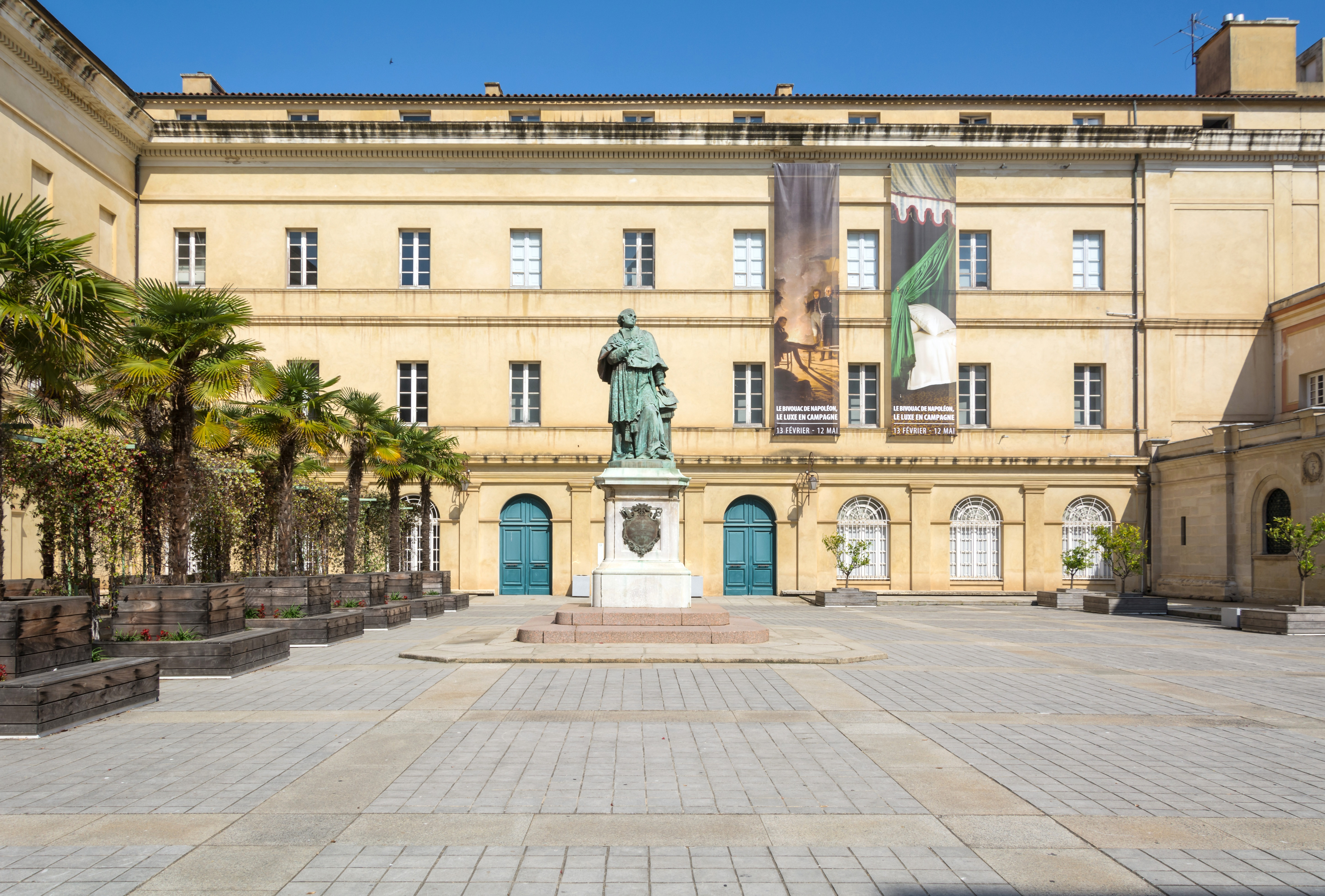 In the Palias Fesch (Ajaccio, Corsica) one can find a museum of fine arts (Musee Fesch) and a library.